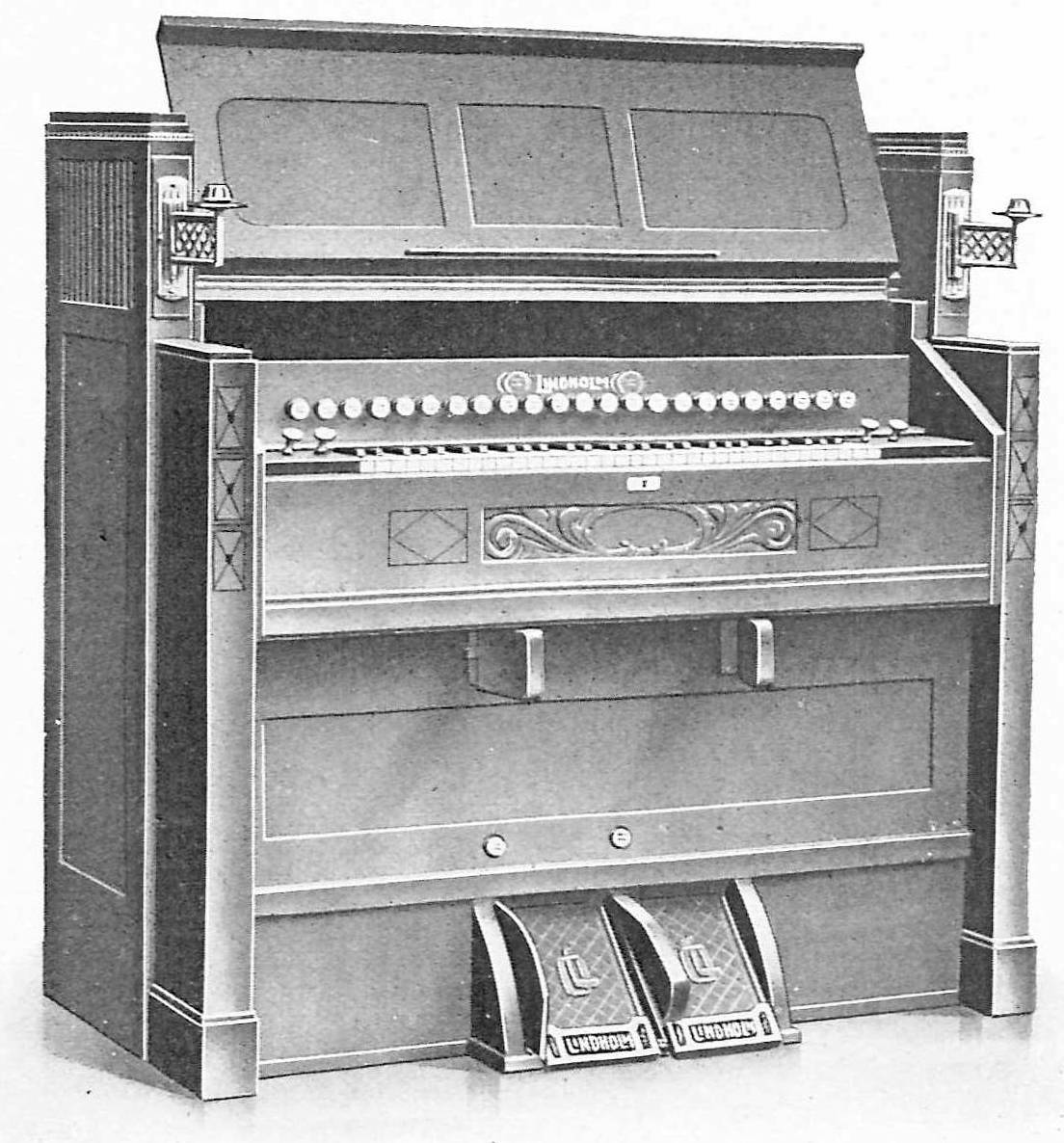 Lindholm "Imperial" Art Harmonium